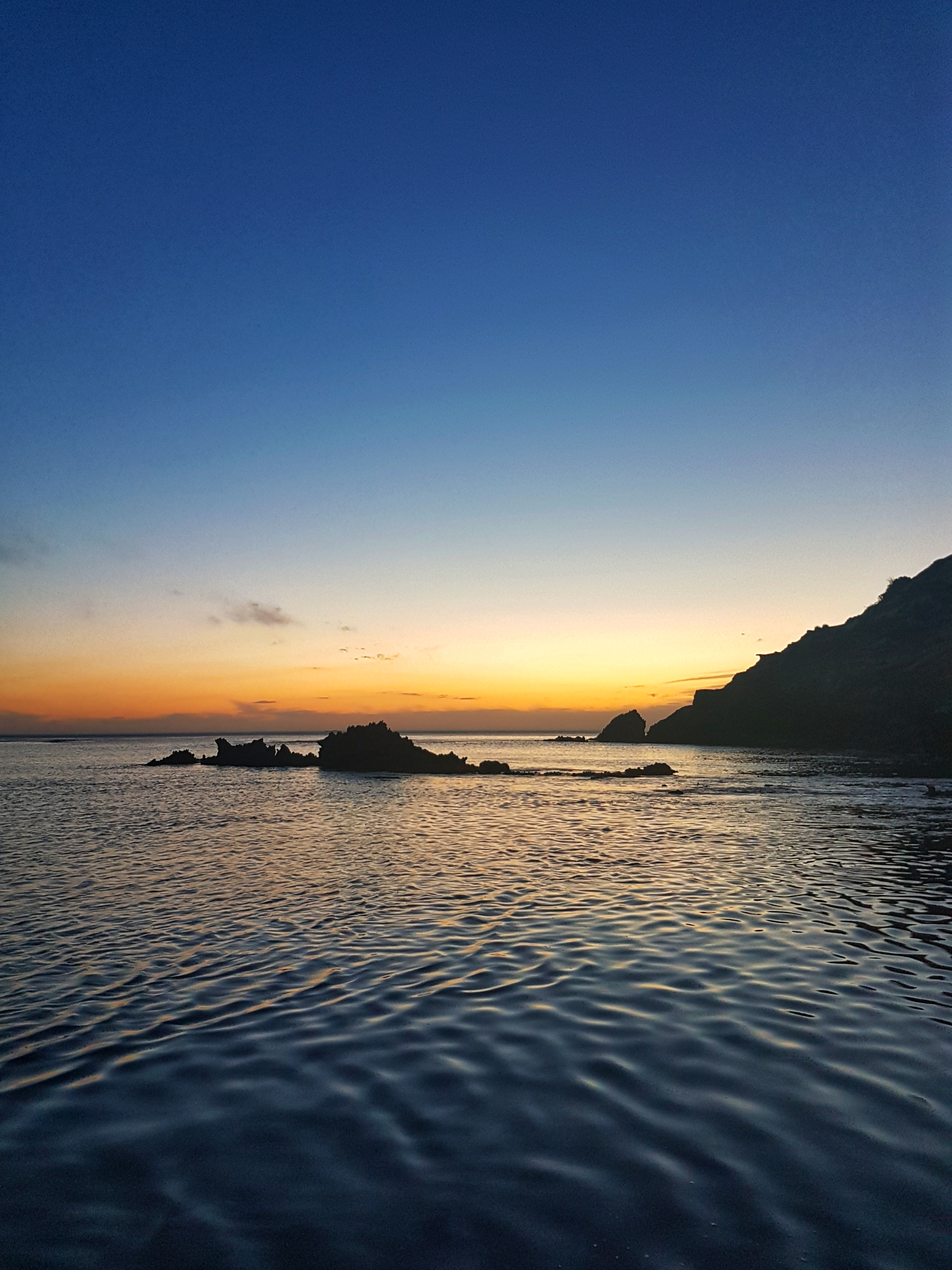 Smooth waves and soothing sunsets at Diamond Bay, Sorrento, Mornington Peninsula National Park, Victoria, Australia.